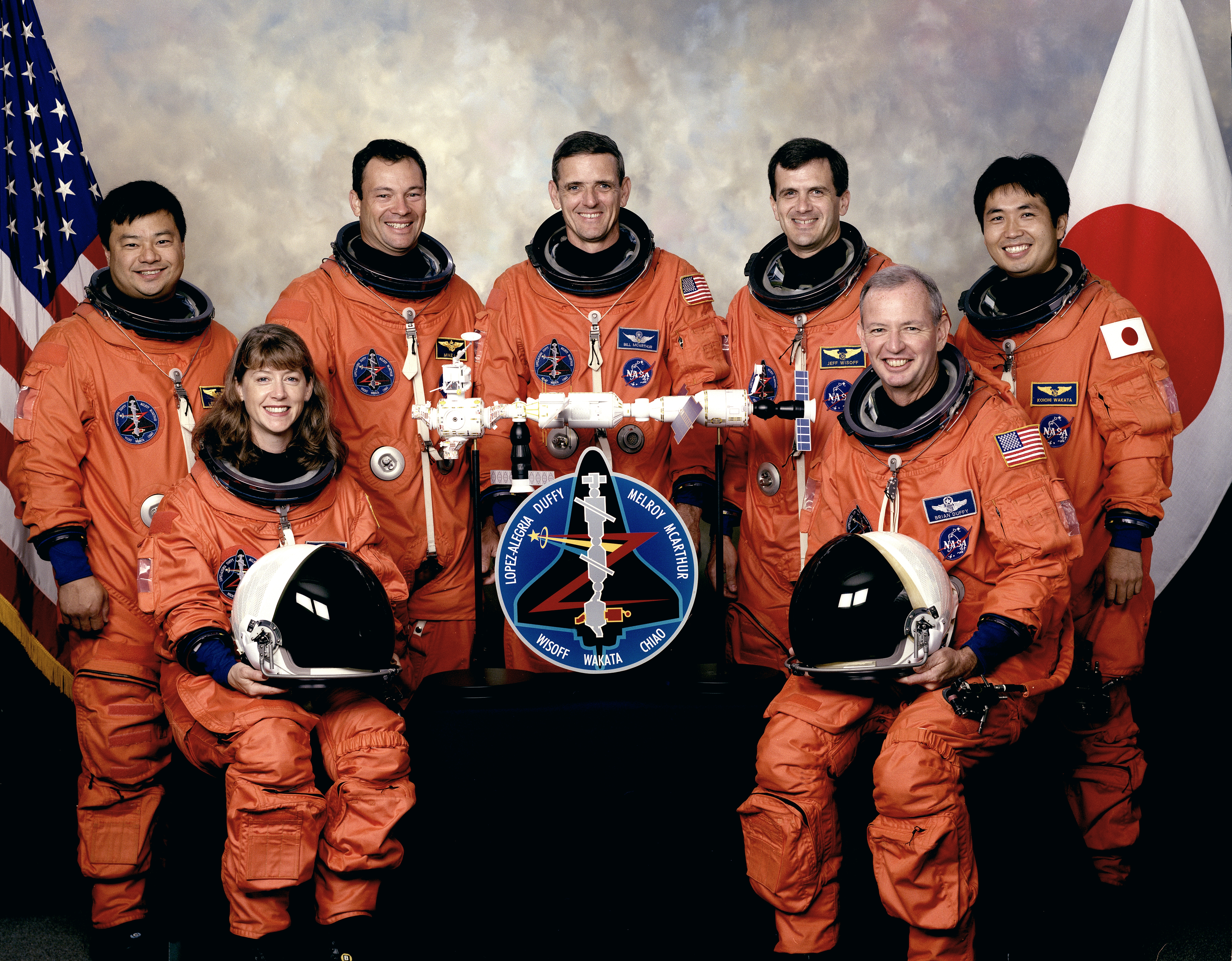 STS-92 crew: Seated in the front Pamela A. Melroy and Brian Duffy (Commander). In the rear from left to right: Leroy Chiao, Michael E. Lopez-Alegria, William S. McArthur, Peter J.K. „Jeff“ Wisoff and Koichi Wakata.